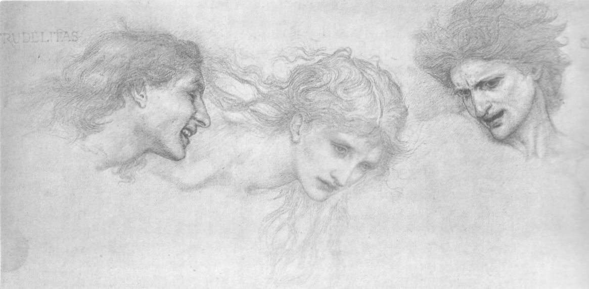 Heads of Despight, Cruelty, and Dame Amoret, study for The Masque of Cupid (1872), from a photograph by Frederick Hollyer.